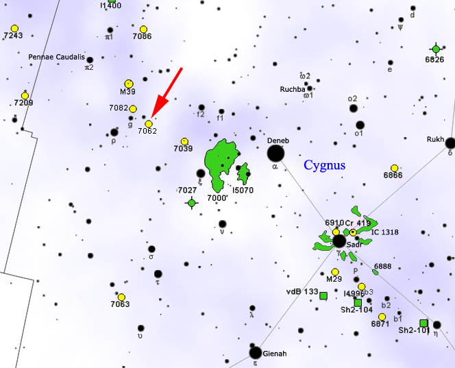 Map of NGC 7062